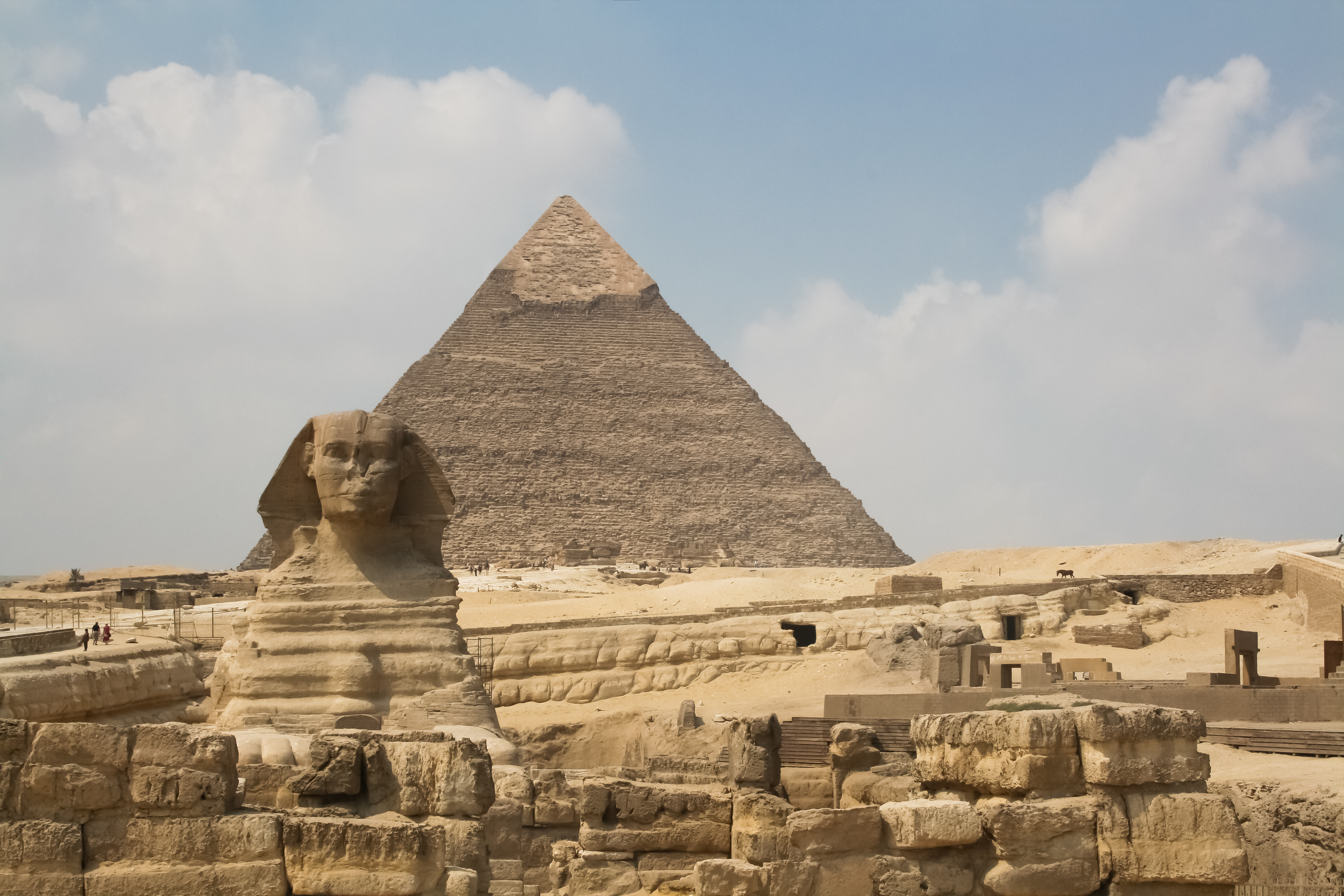 Great Sphinx of Giza, Giza, Egypt